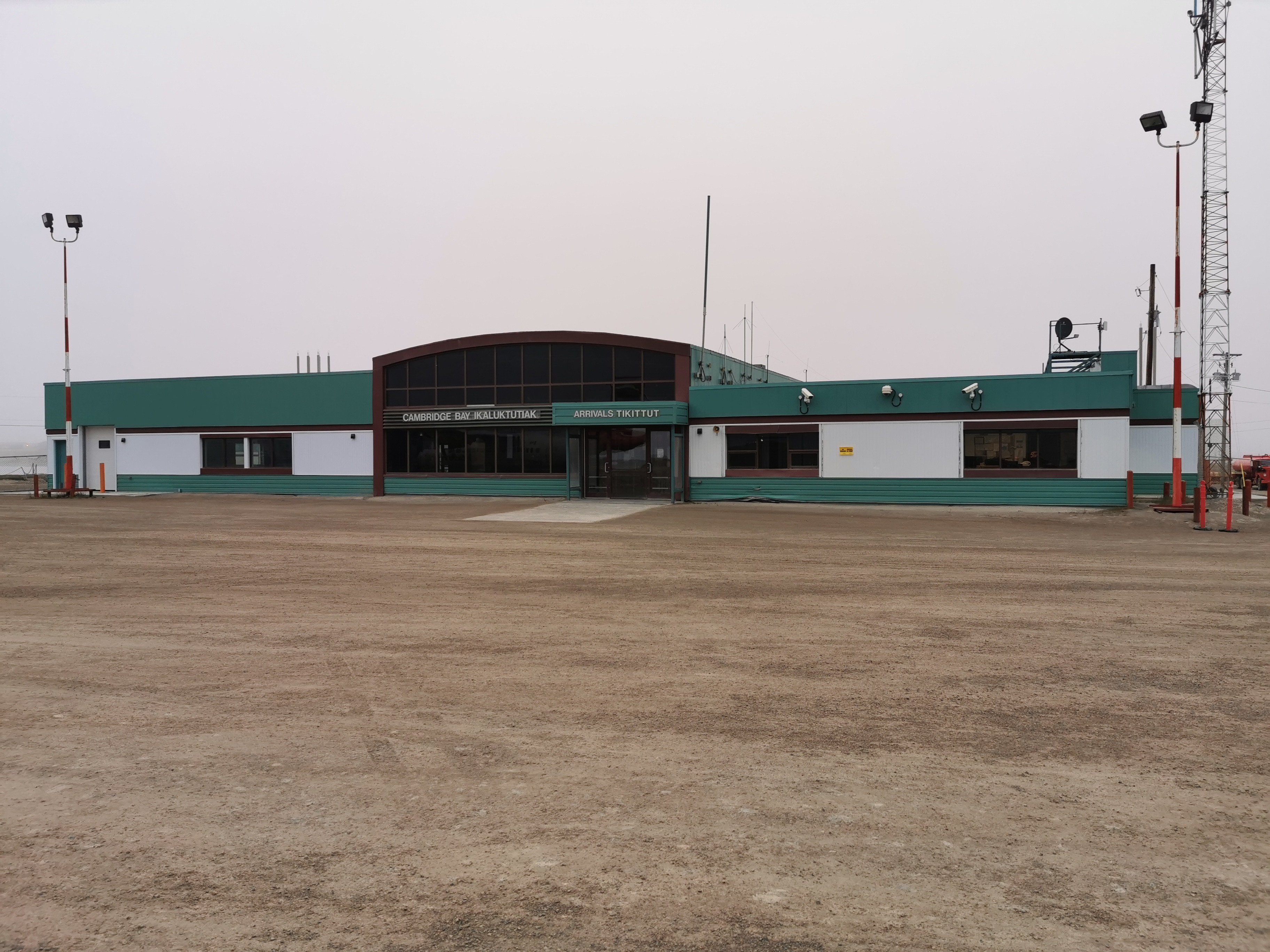 Cambridge Bay (Ikaluktutiak) Airport, 26 July 2020, taken from airside. Terminal has been extended.